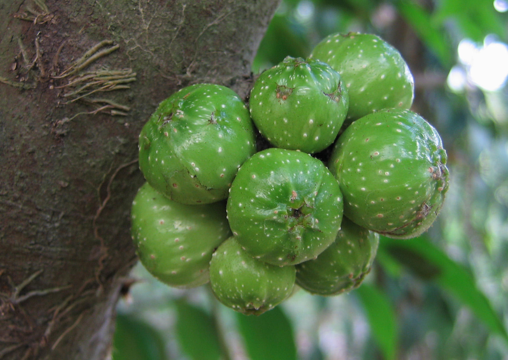 Ficus oppositifolia fruits - തൊണ്ടിപ്പഴം